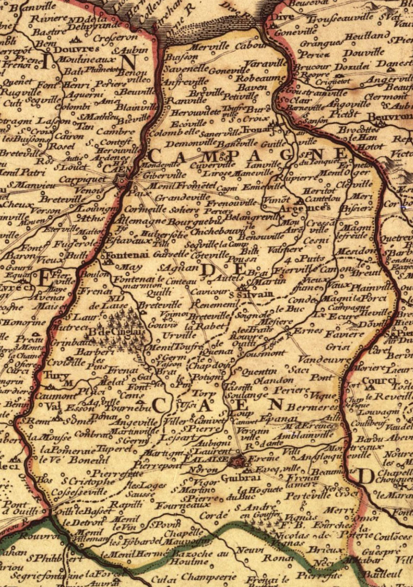 The Campagne de Caen (Normandy)